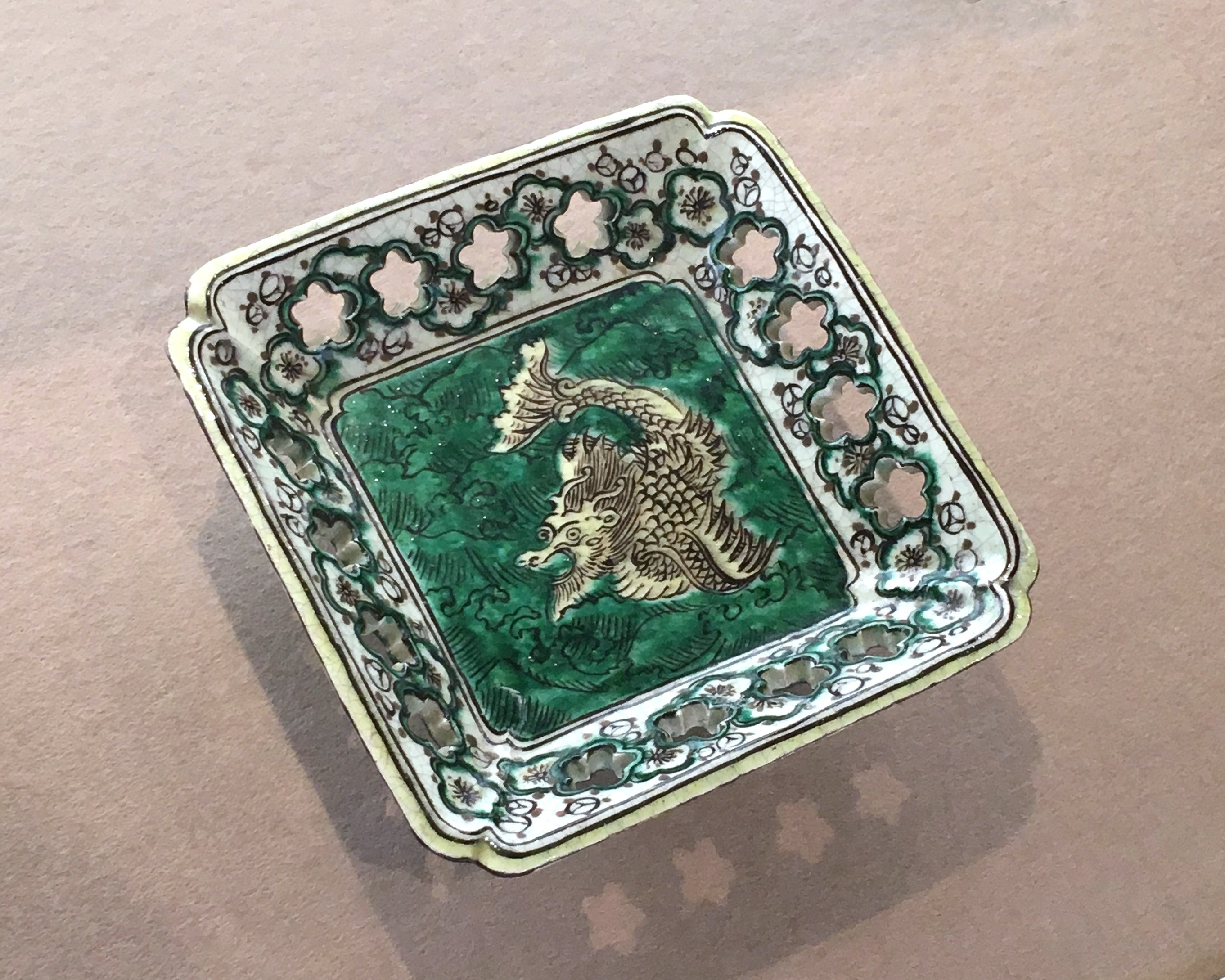 Square bowl, makara whale fish design Sasashima ware Edo period, 19th century Aichi Prefectural Ceramic Museum